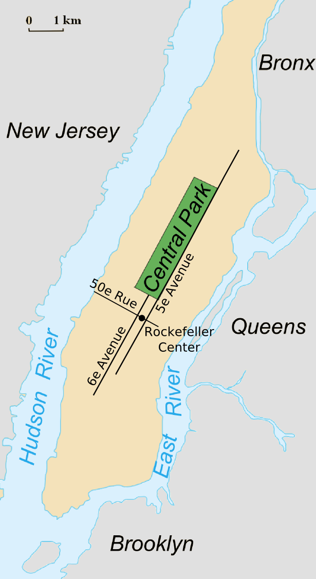 Carte de situation du Rockefeller Center, New York City